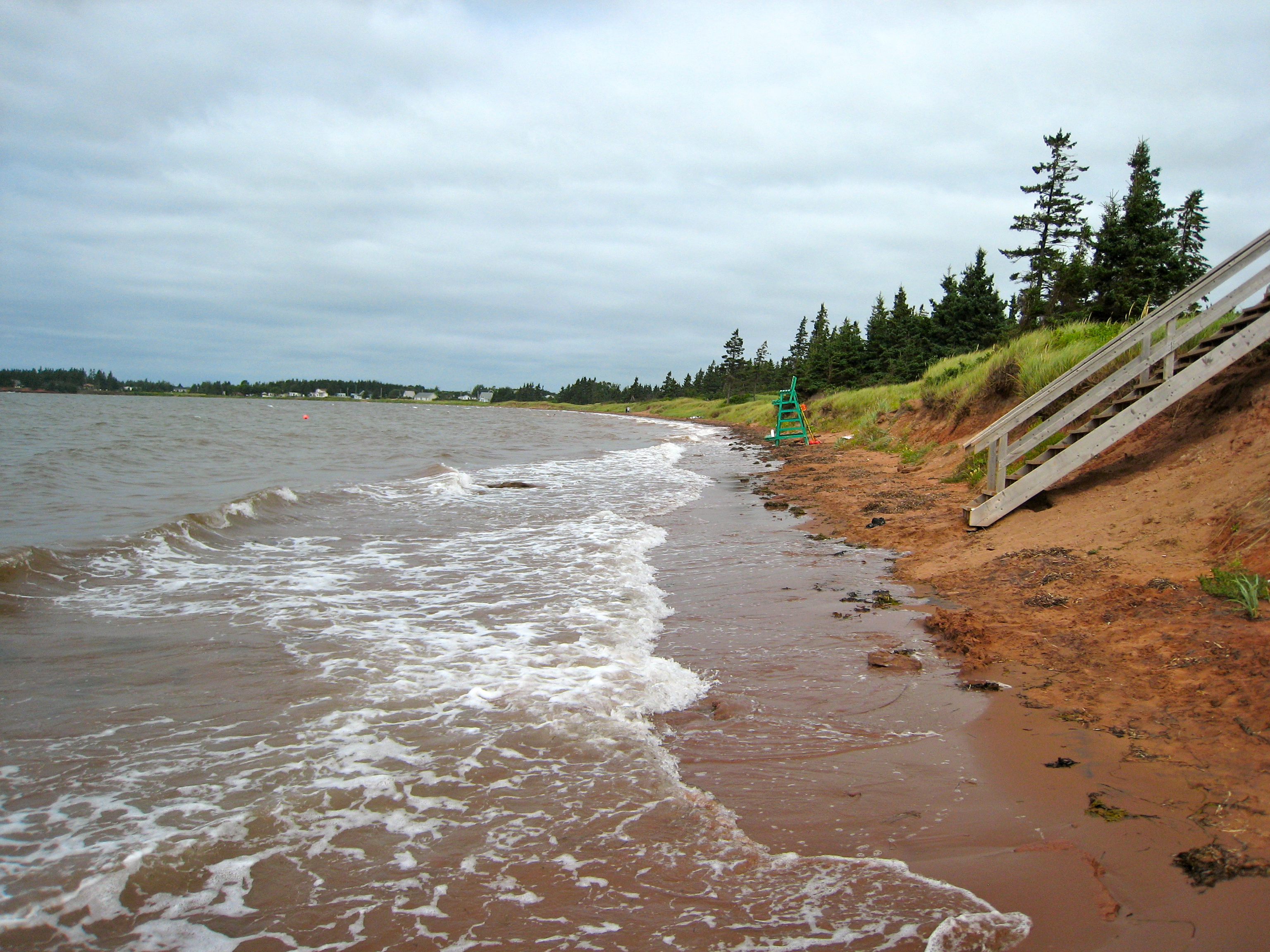 Photo by Ert Dredge, August 22, 2009 Summary Photo by Ert Dredge, August 22, 2009